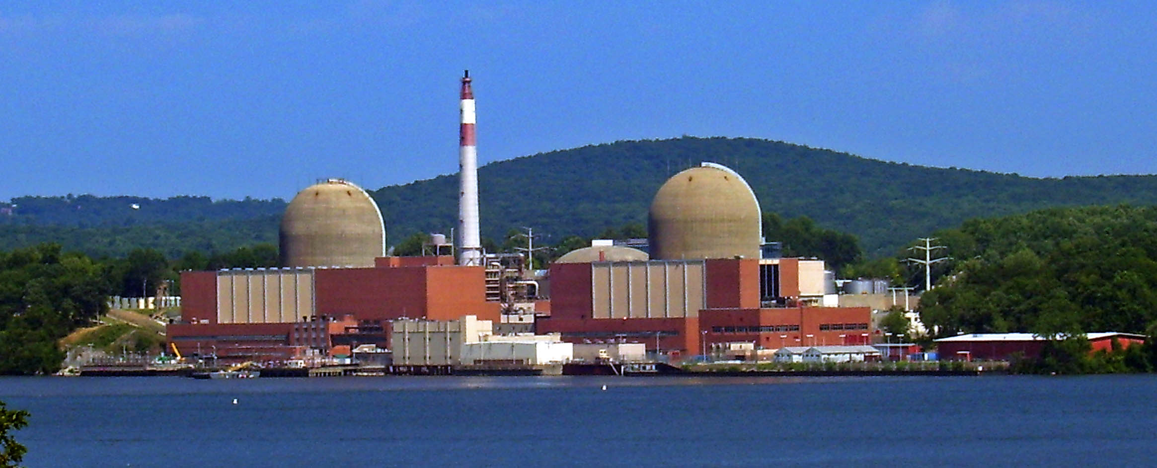 Indian Point nuclear reactor, seen from across the Hudson River on US 9W